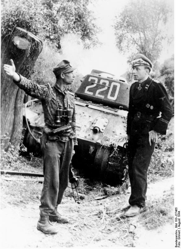 SS First lieutenant Erwin Meier-Dress, wearer of the Iron Cross with Oak Leaves, receives orders from his company commander. In the background is a Soviet tank that fell victim to our "Panther" and "Panzerfausts". SS-PK-Kriegsberichter Grönert 25.8.1944 [Herausgabedatum]